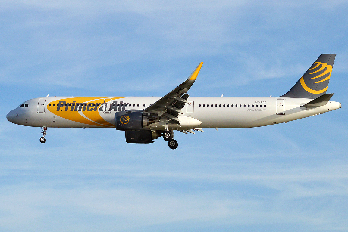 Primera Air Scandinavia, OY-PAC, Airbus A321-251N